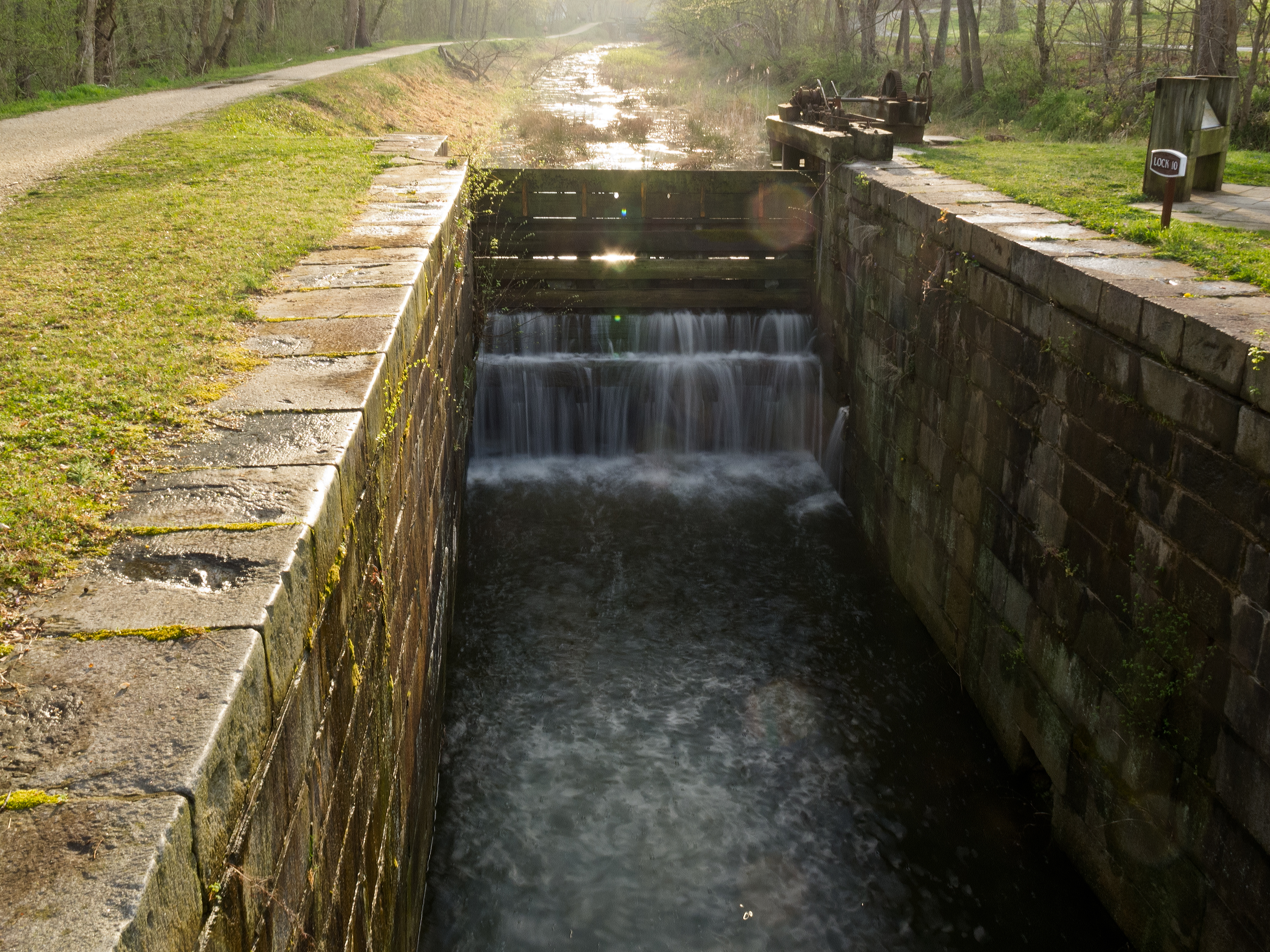 Lock 10 on the Chesapeake and Ohio Canal, part of 7 Locks